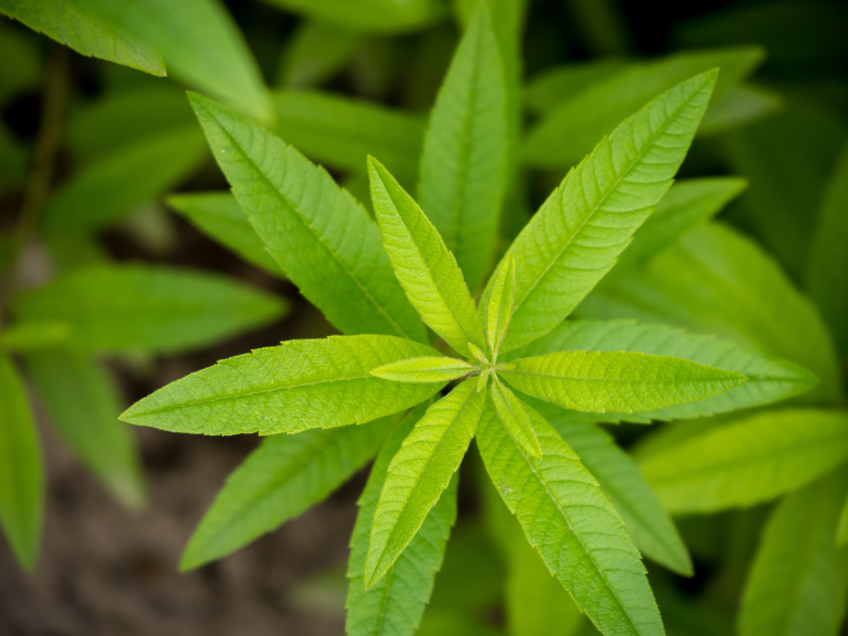 Lemon Verbena